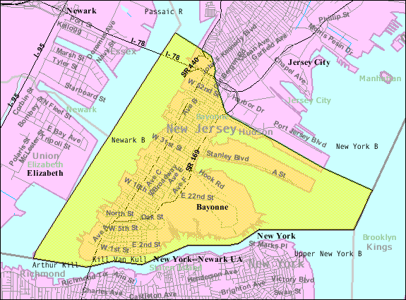 Census Bureau map of Bayonne